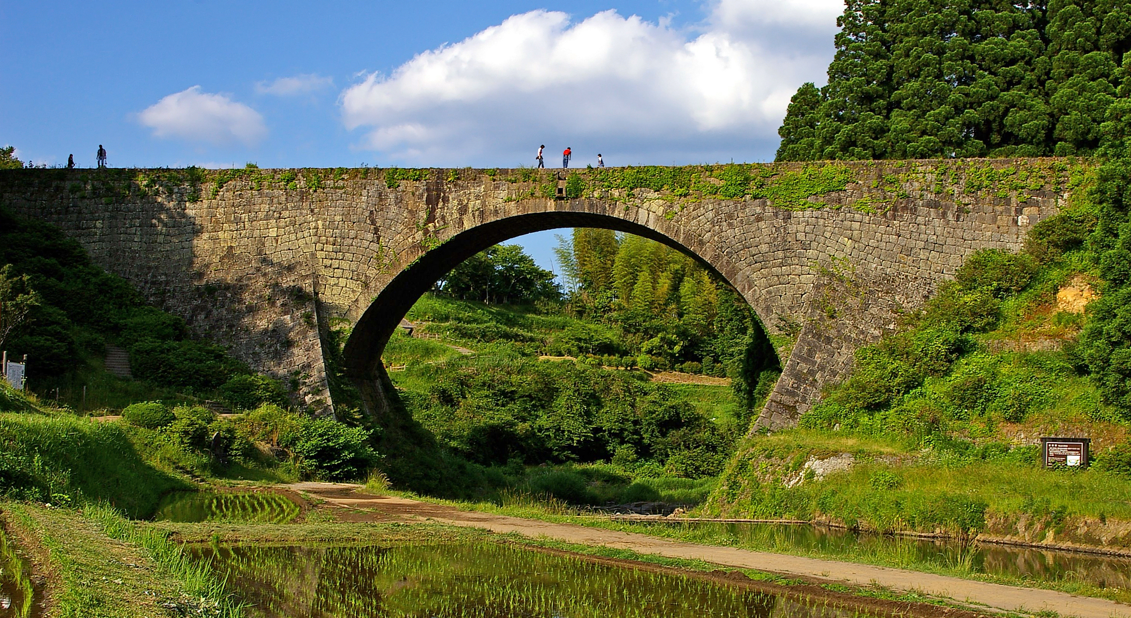 通潤橋(Tsu-jyun-kyo); The aqueduct bridge of stone construction with fixed-arch architecture in Yamato Town, Kumamoto Pref., Japan. It was constructed in 1854(the Edo period).